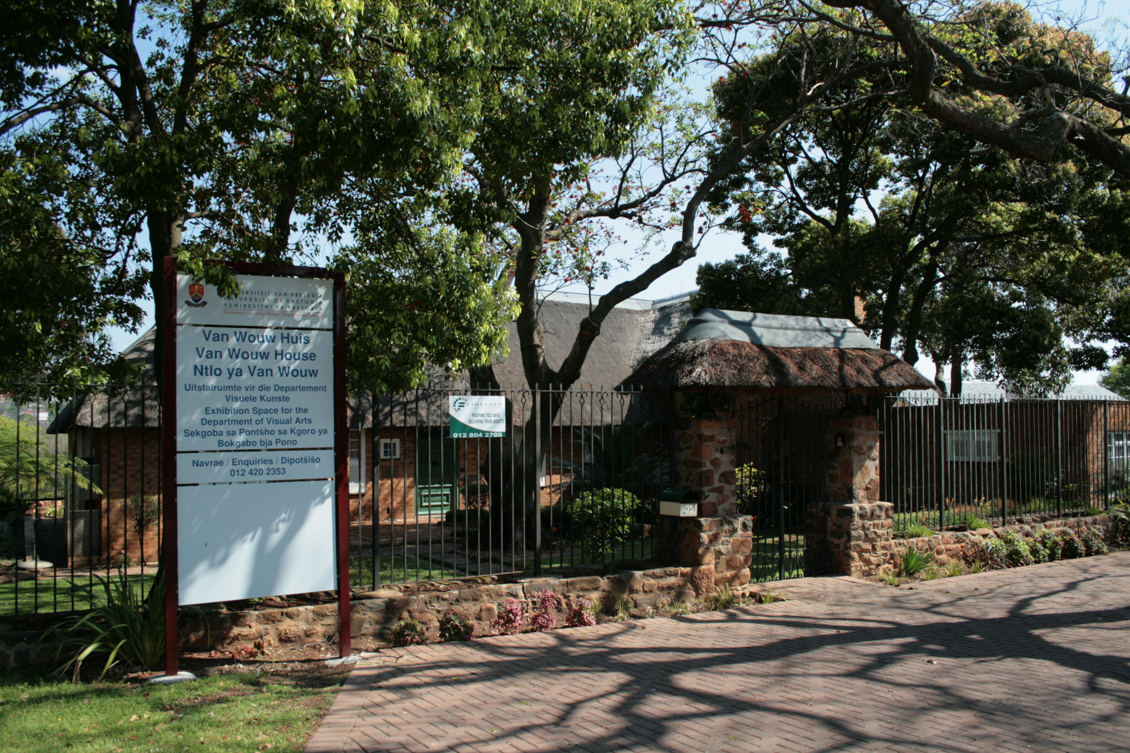 Van Wouw House in Clark street, Brooklyn, Pretoria, is owned by the University of Pretoria. It was the last home and studio of the sculptor Anton van Wouw.[1] This media shows a South African Protected Site with SAHRA file reference 9/2/258/0043. ↑ a b Anton van Wouw Collection